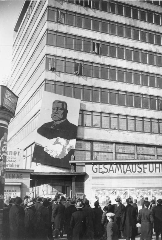 Presidential elections, huge Hindenburg poster in Berlin